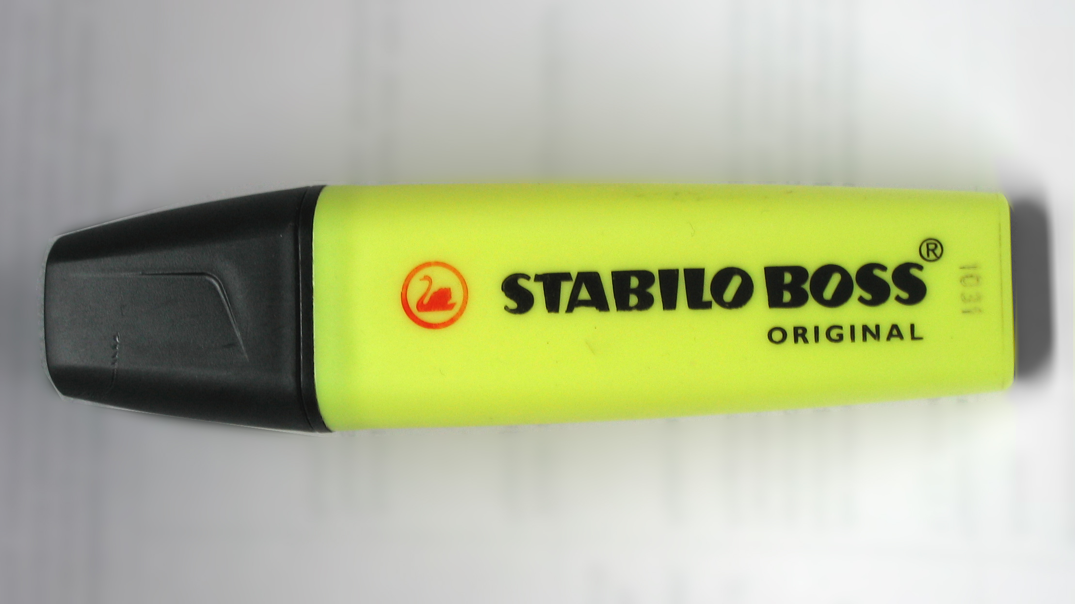 Stabilo Boss Original. Color correction used to maintain the original appearance of the pen. Taken by Canon Powershot A80 on Auto and Macro-settings.